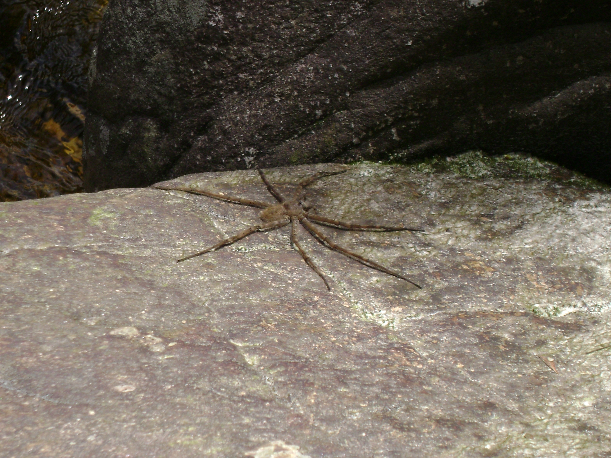 Spider in Tabuleiro, Minas Gerais, Brazil